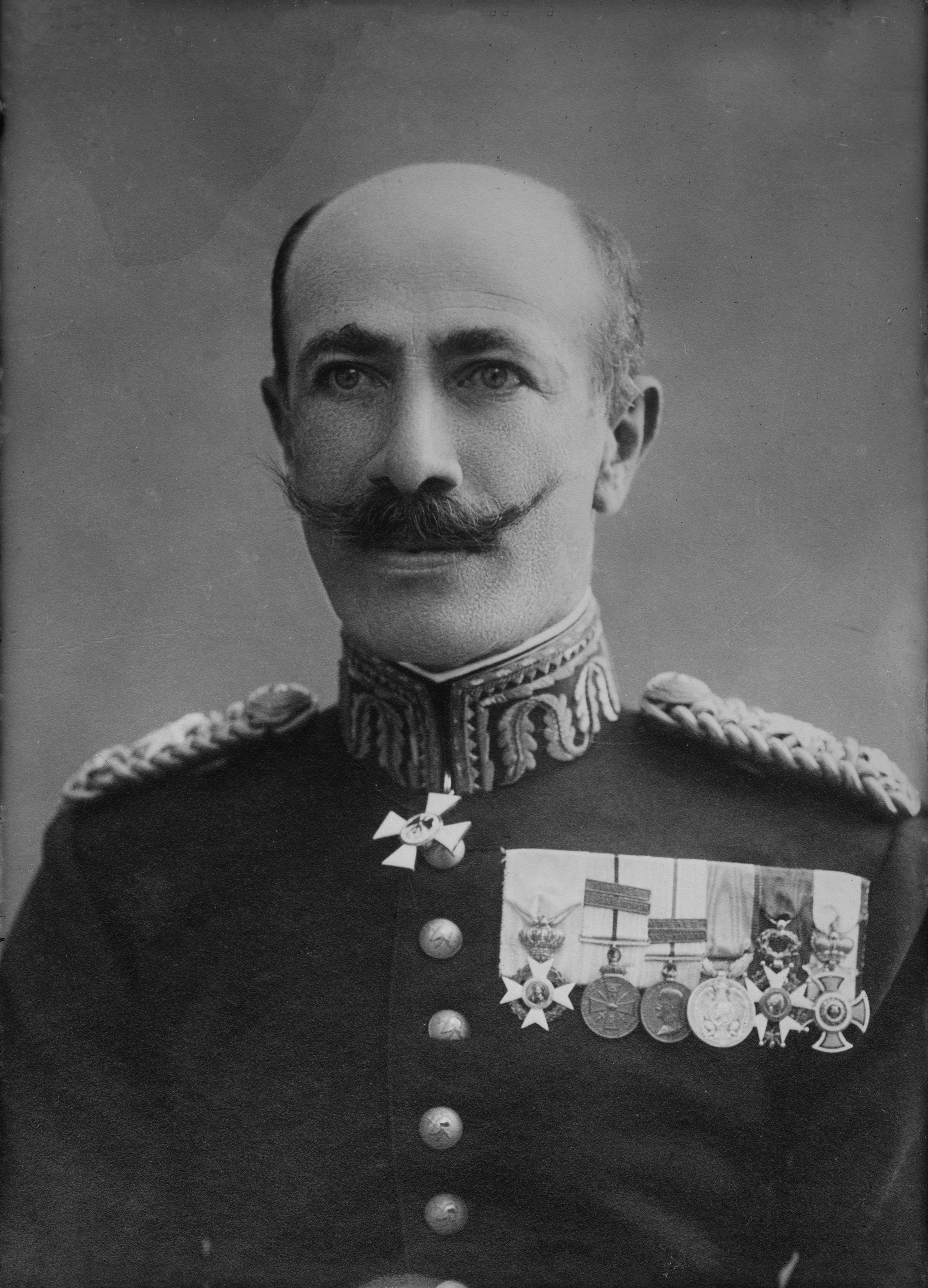 Title: Gen. Zimbrakatis [i.e. Zymvrakakis] Abstract/medium: 1 negative : glass ; 5 x 7 in. or smaller.